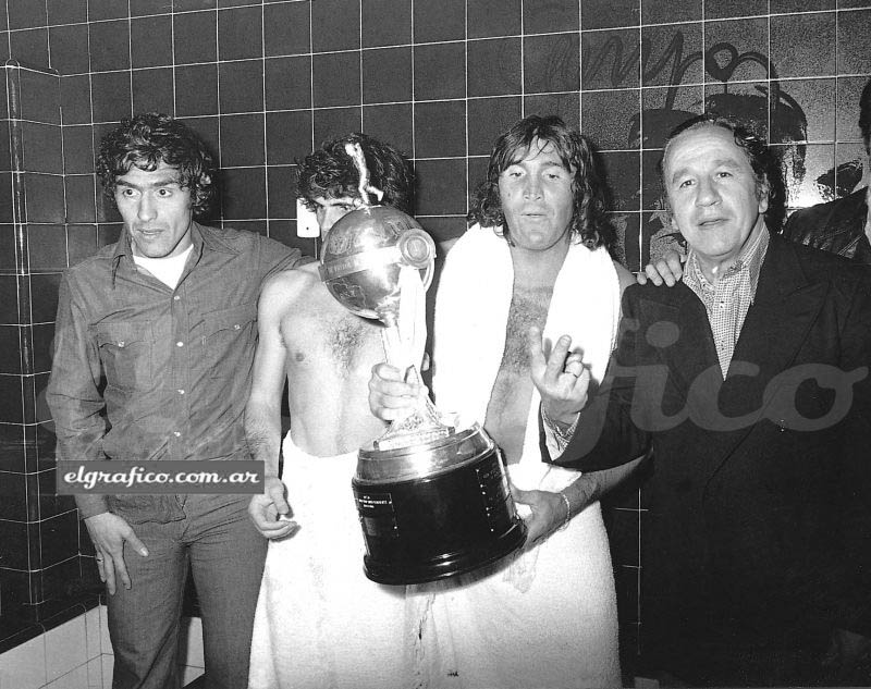 Boca Juniors with the Copa Libertadores trophy. (fltr): Francisco Sá, Mario Zanabria, Hugo Gatti and manager Juan C. Lorenzo.